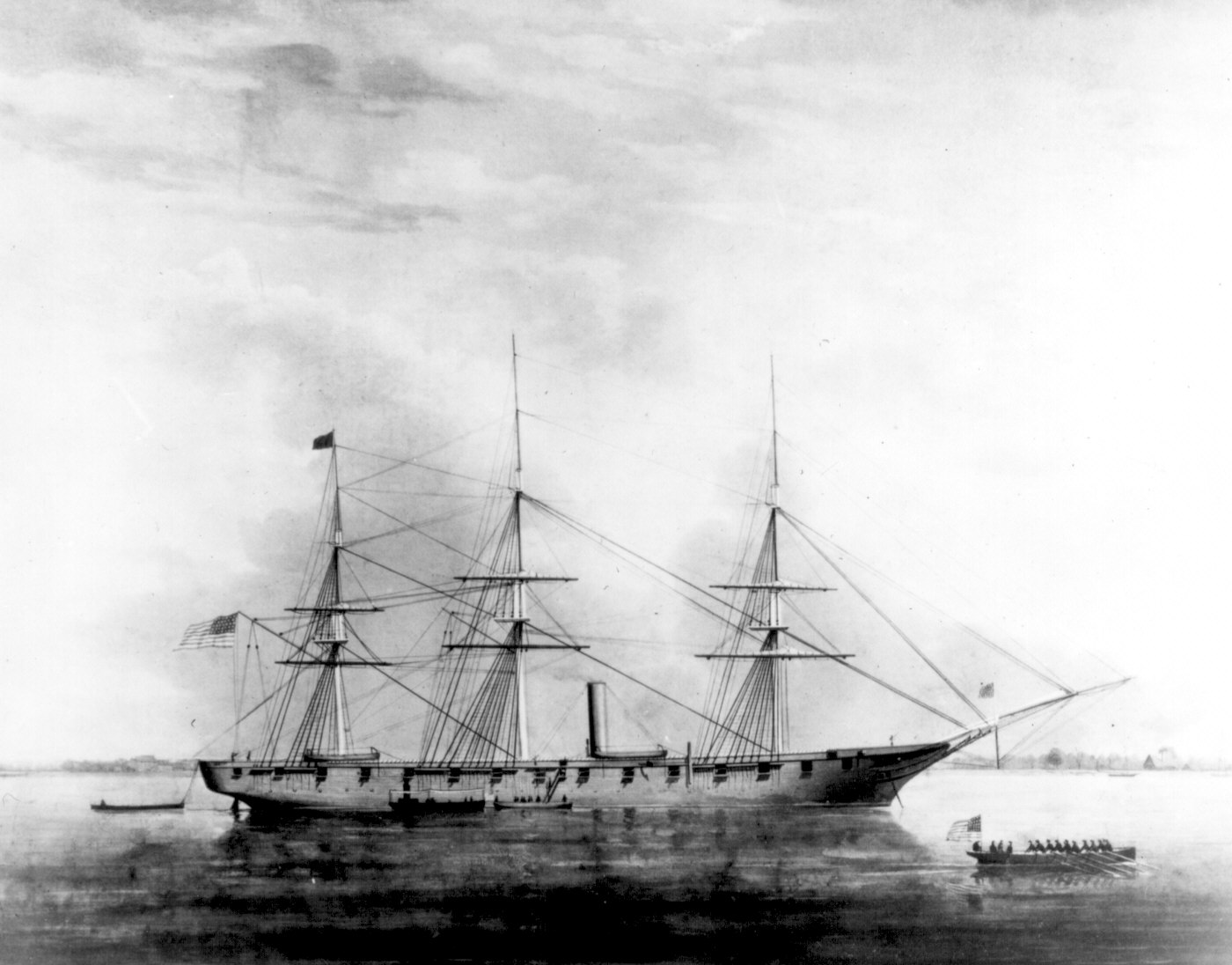 Ship: USS Hartford Type: Screw Sloop, 1859 Date: 1864 View: Starboard side Photo ID: 19-N-3174; Artwork by E. Arnold